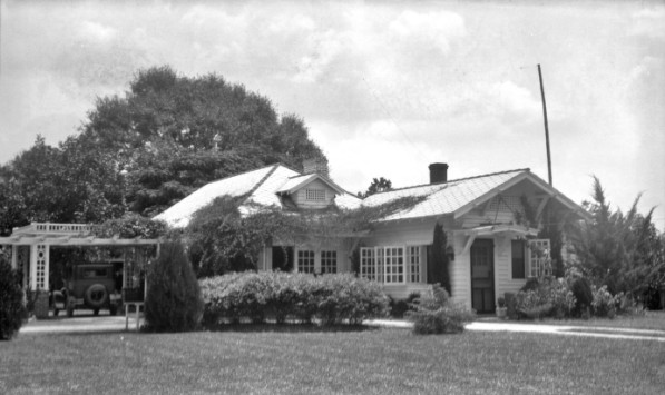 Angled view of a house (Burdette Keeland Architectural Papers Collection)